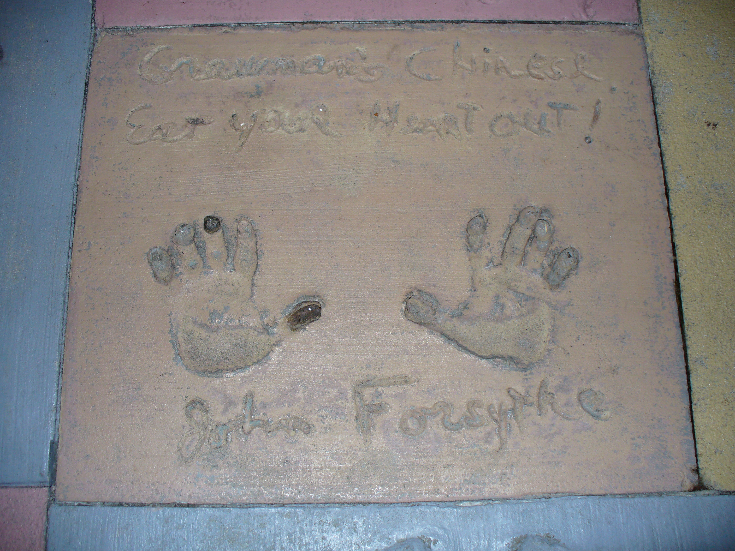 I am the originator of this photo. I hold the copyright. I release it to the public domain. This photo depicts the handprints of John Forsythe in front of The Great Movie Ride at Walt Disney World's Disney's Hollywood Studios theme park.